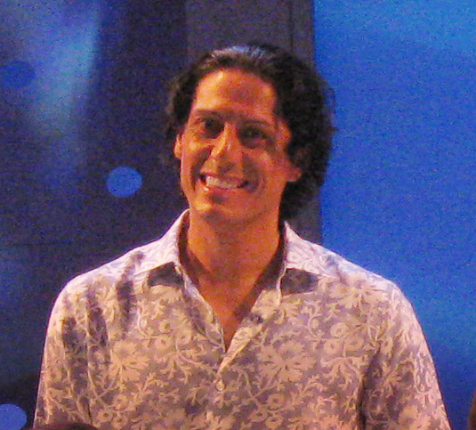 CJ de Mooi at the filming of the BBC2 daytime quiz Show 'Eggheads'